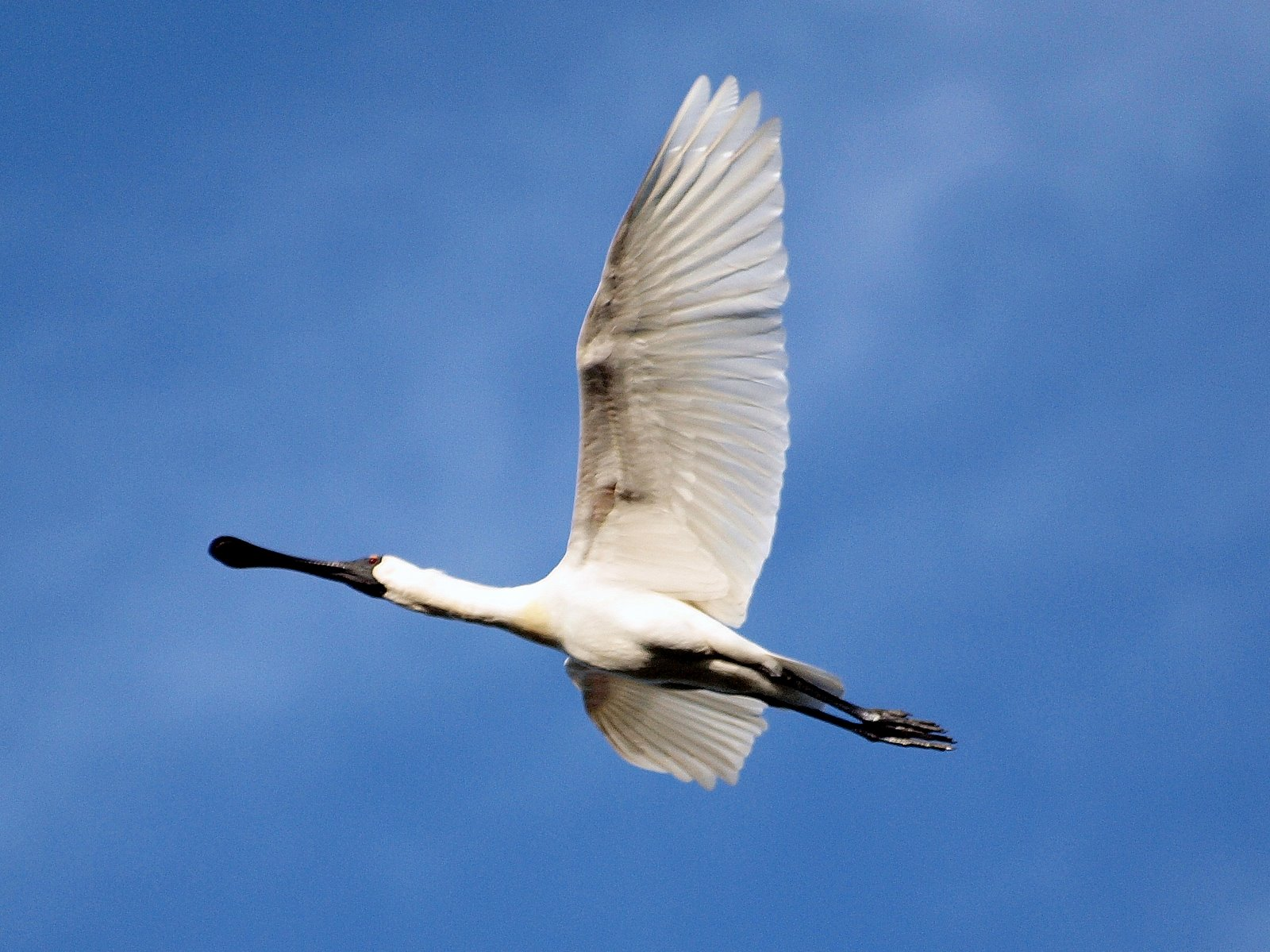 A Royal Spoonbill (Platalea regia) flying in Canberra, Australia.